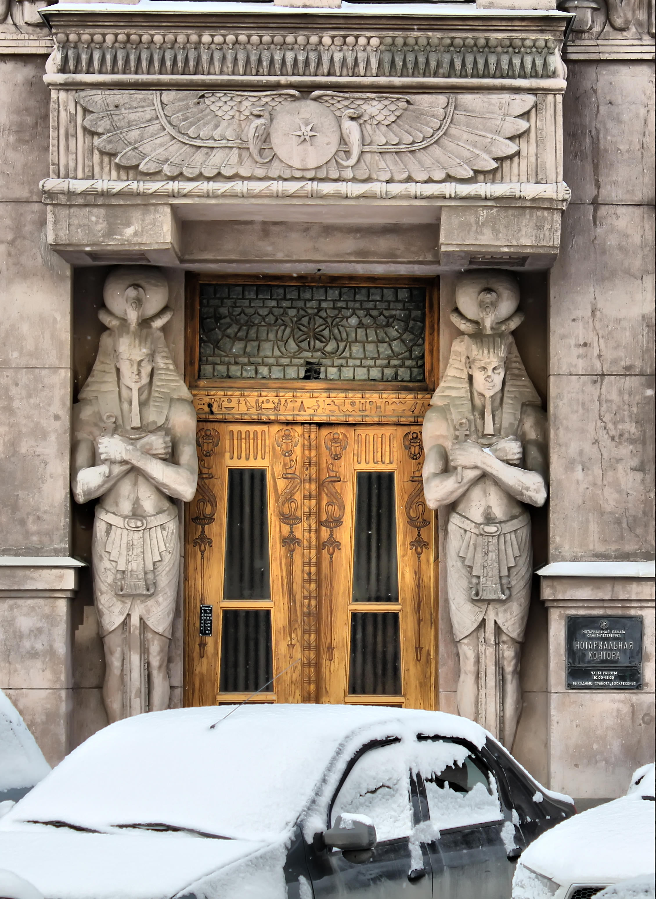 Tsentralny District, St Petersburg, Russia